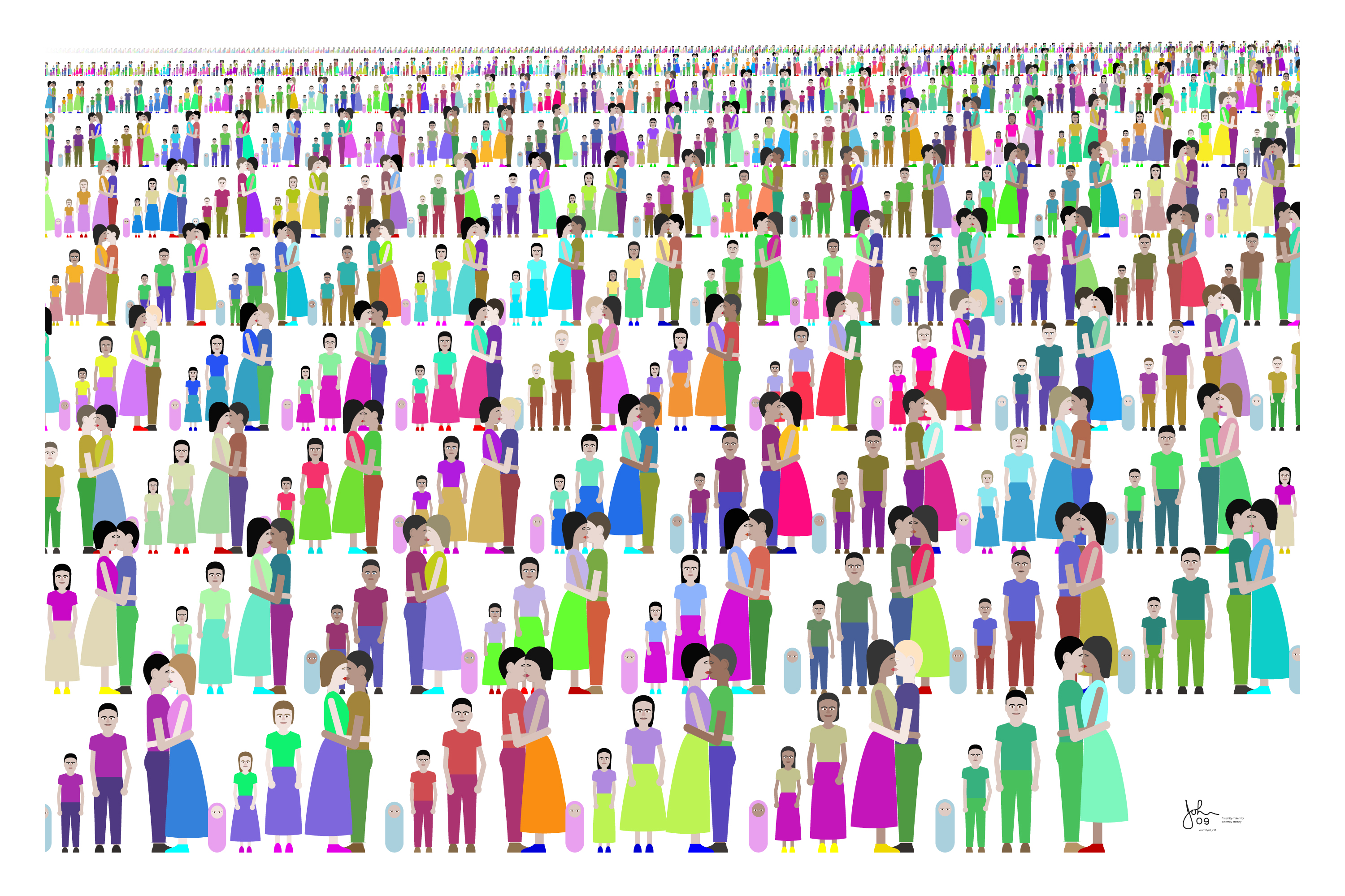 Computer generated single branch of a family tree extending 350+ generations. Shows inheritance of skin, hair, color. "the descent from Adam"